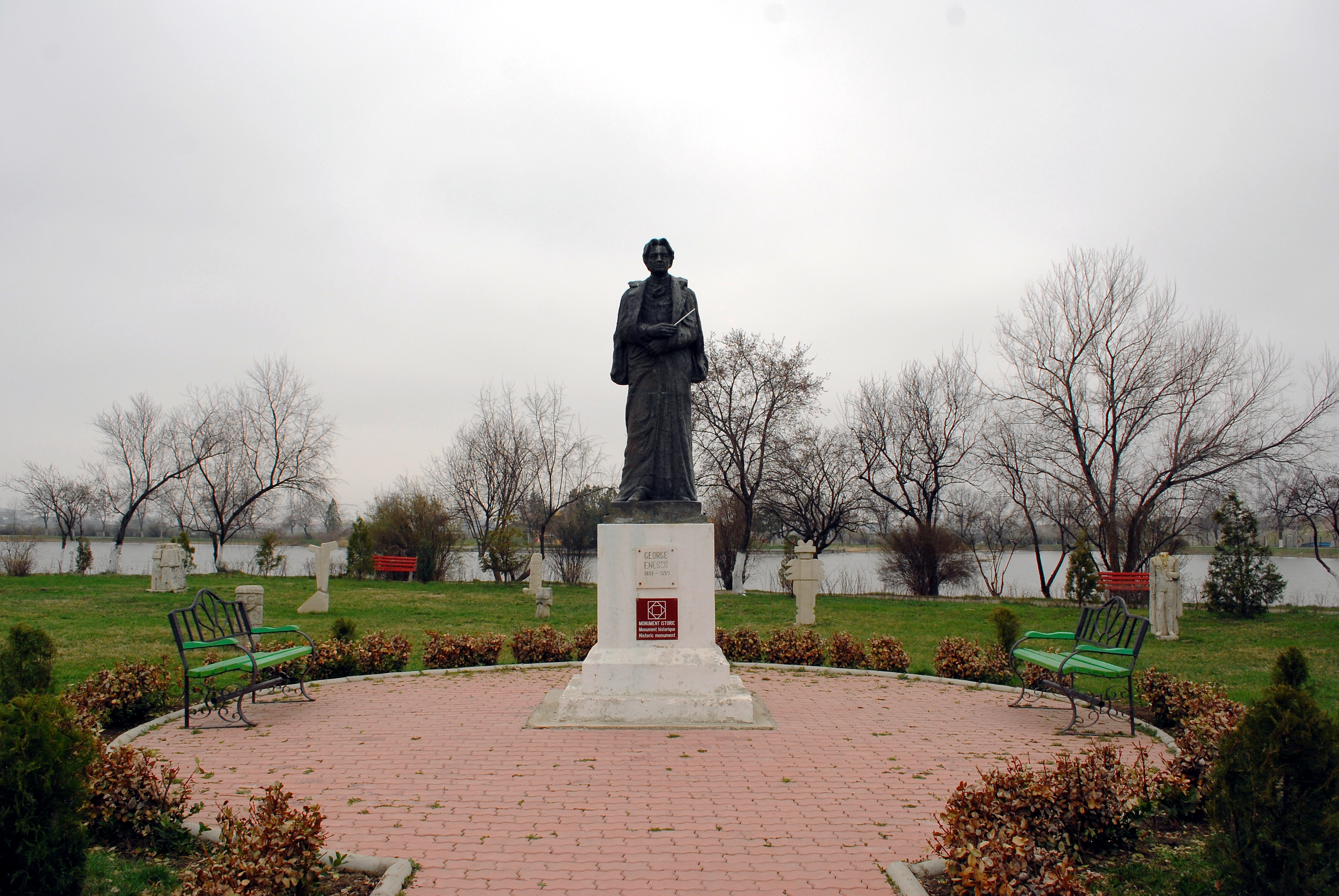 Statue of George Enescu in Tineretului Park in Buzău, RomaniaUnknown statuia lui george enescu din parcul tineretului din buzău, românia